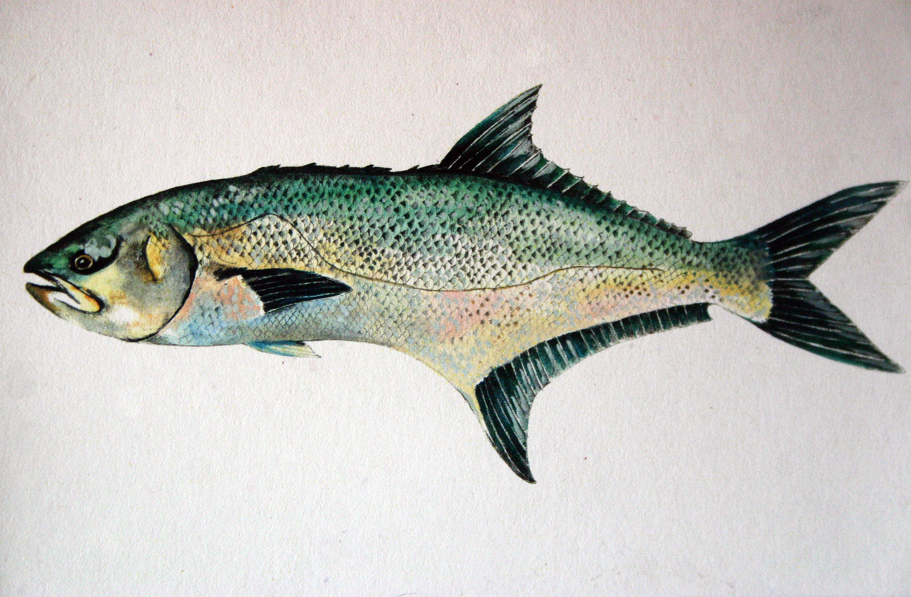 Painting of Leerfish or Garrick (Lichia amia) purchased from artist together with copyright in December 2012